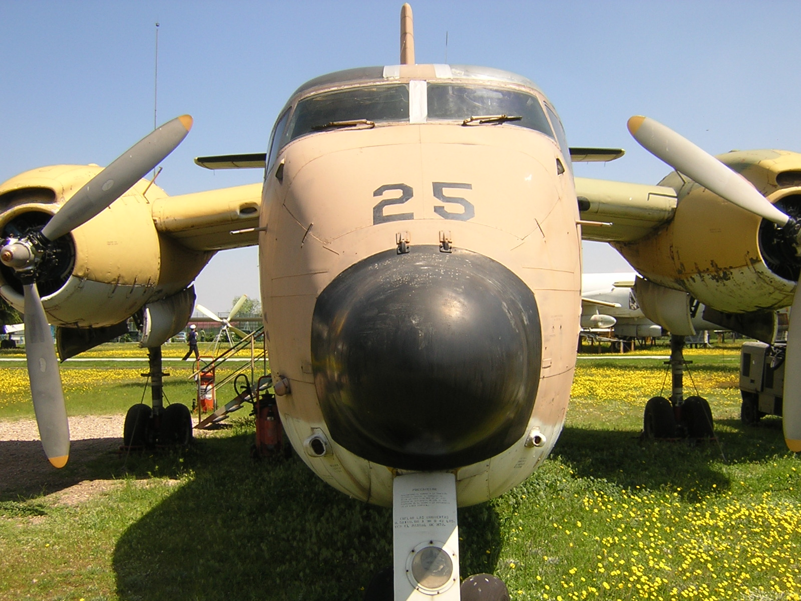 de Havilland Canada DHC-4 Caribou at Museo del Aire, Madrid, Spain.